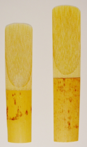 Frederick L. Hemke brand saxophone reeds; alto, then tenor. Photo taken by User:Reisio. Modified in GIMP.